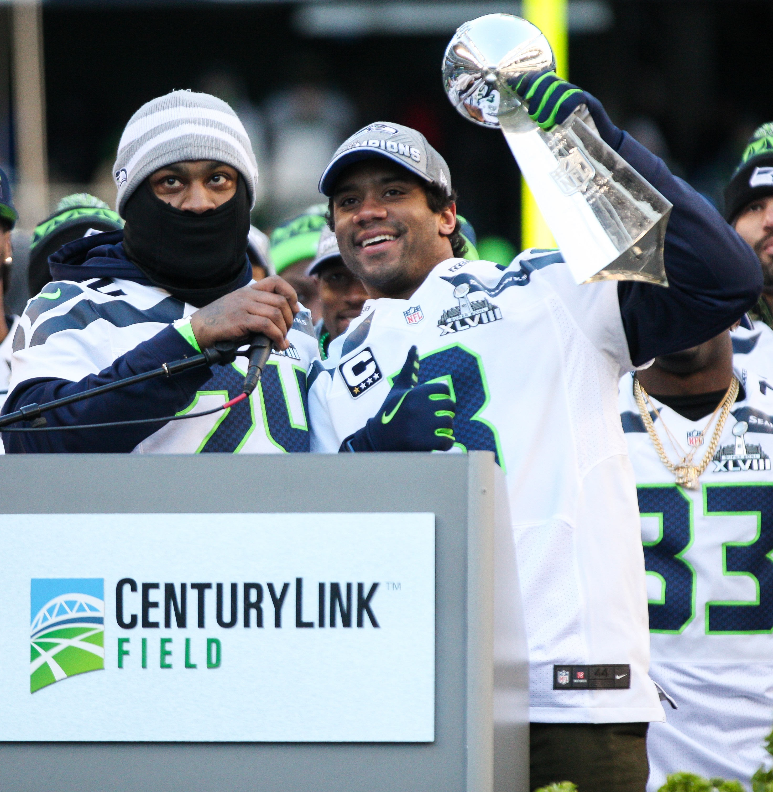 Russell Wilson and Marshawn Lynch celebrating the Super Bowl XLVIII victory at the CenturyLink Field in Seattle, 02.05.2014